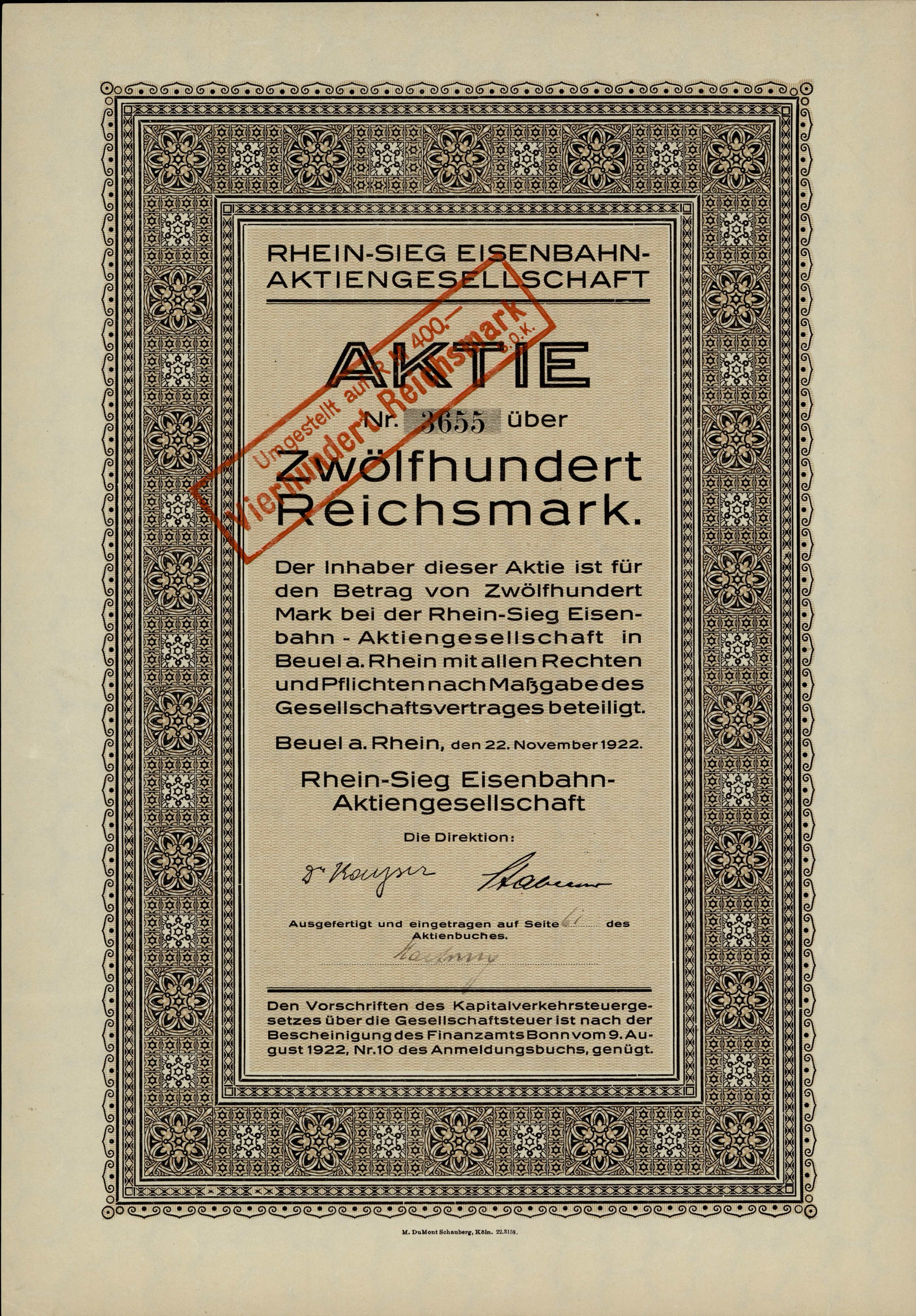 Share of the Rhein-Sieg Eisenbahn-AG, issued 22. November 1922